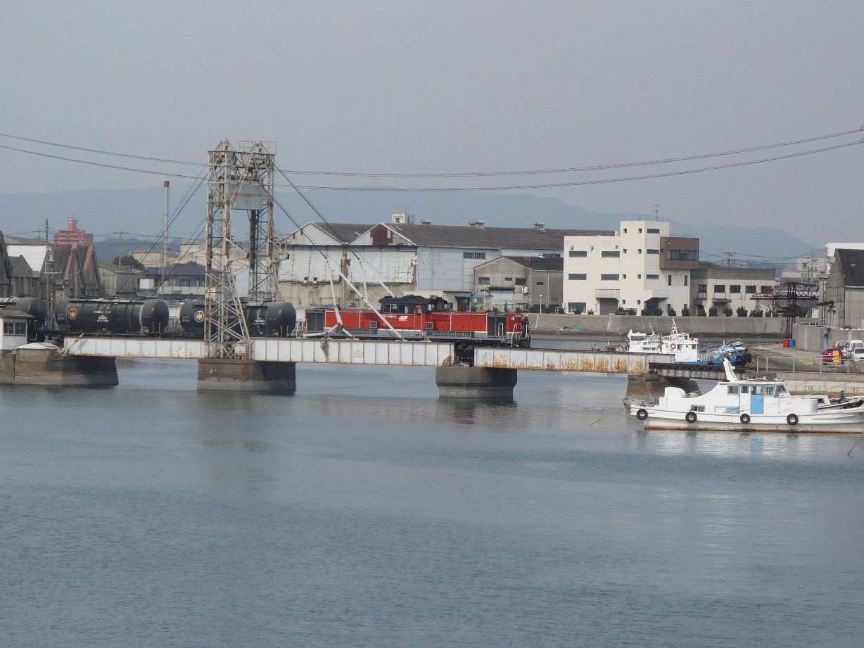 DD51 diesel locomotive hauled freight train is passing Suehiro bridge, Yokkaichi city Mie prefecture, Japan. Suehiro bridge is a bascule bridge.